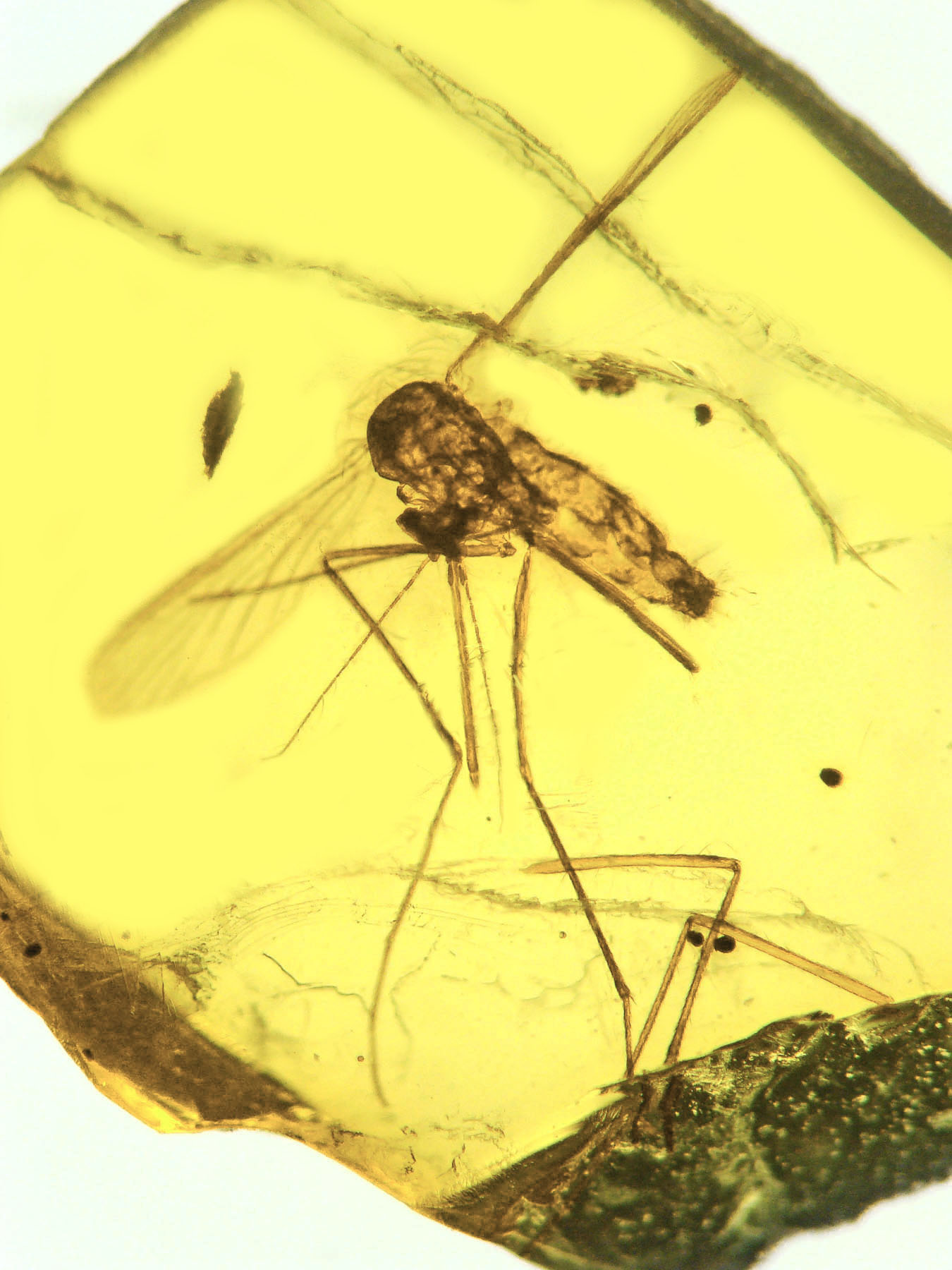 This 15-20 million-year-old mosquito Culex malariager, was discovered in the Dominican Republic preserved in amber, and is infected with the malarial parasite Plasmodium dominicana. It’s the oldest known fossil showing Plasmodium malaria, related to the type that today infects humans. (Photo by George Poinar, Jr., courtesy of Oregon State University)